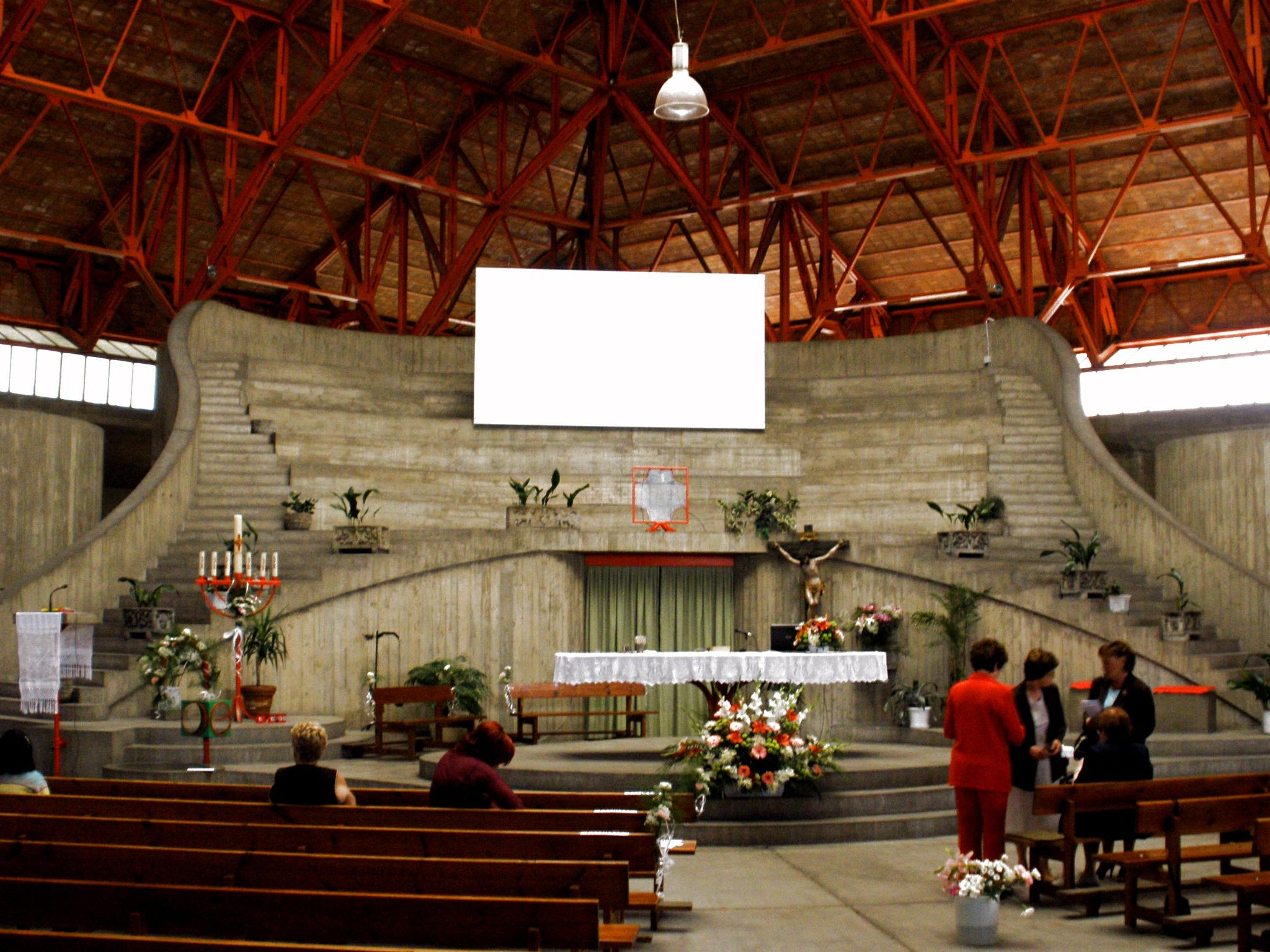 Parroquia de San Francisco de Asís, en Vitoria-Gasteiz (Álava, País Vasco, España)